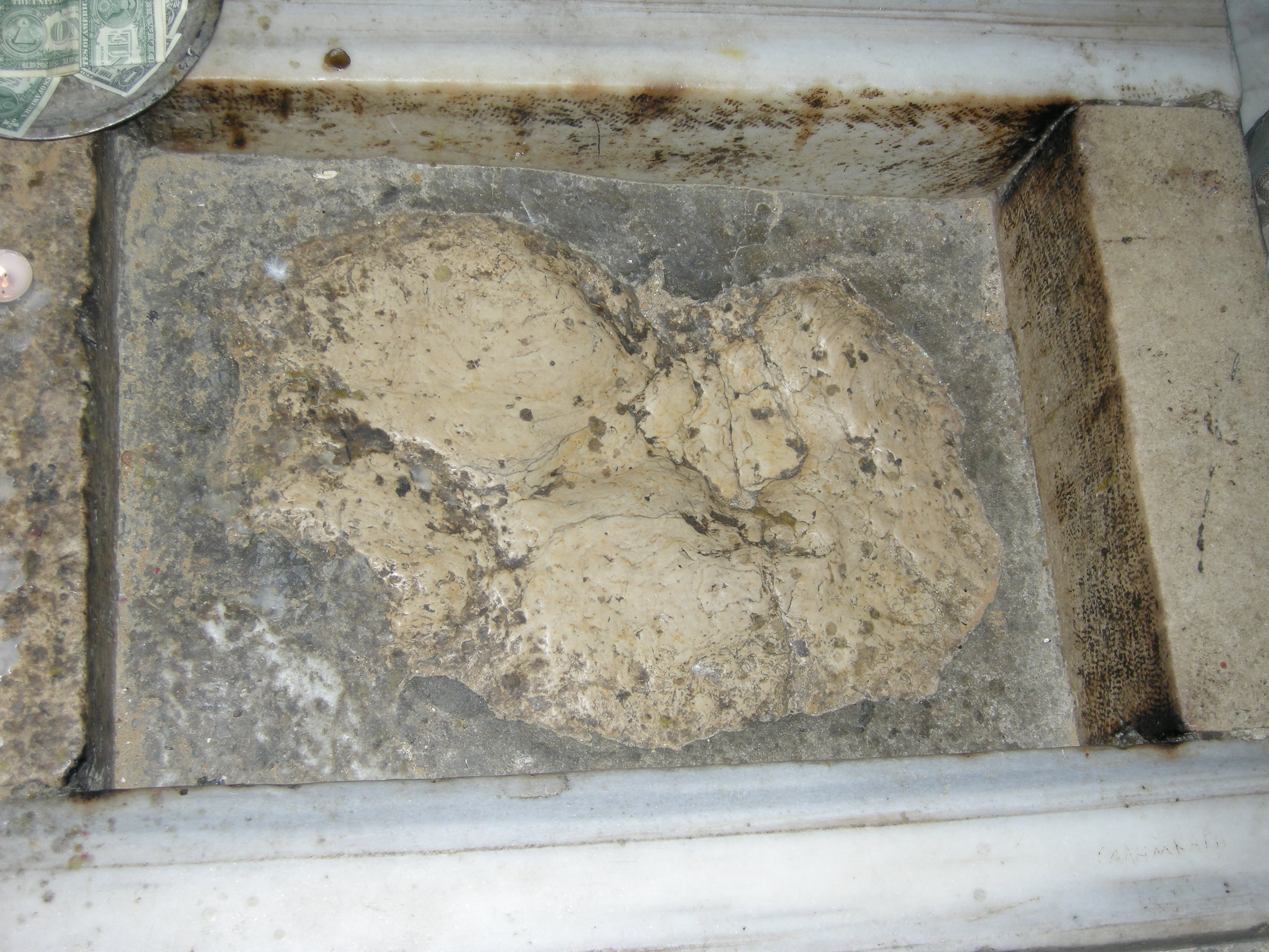 Visit in the Chapel of the Ascension, Jerusalem